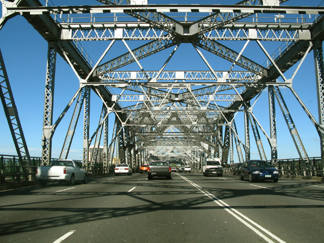 Brisbane